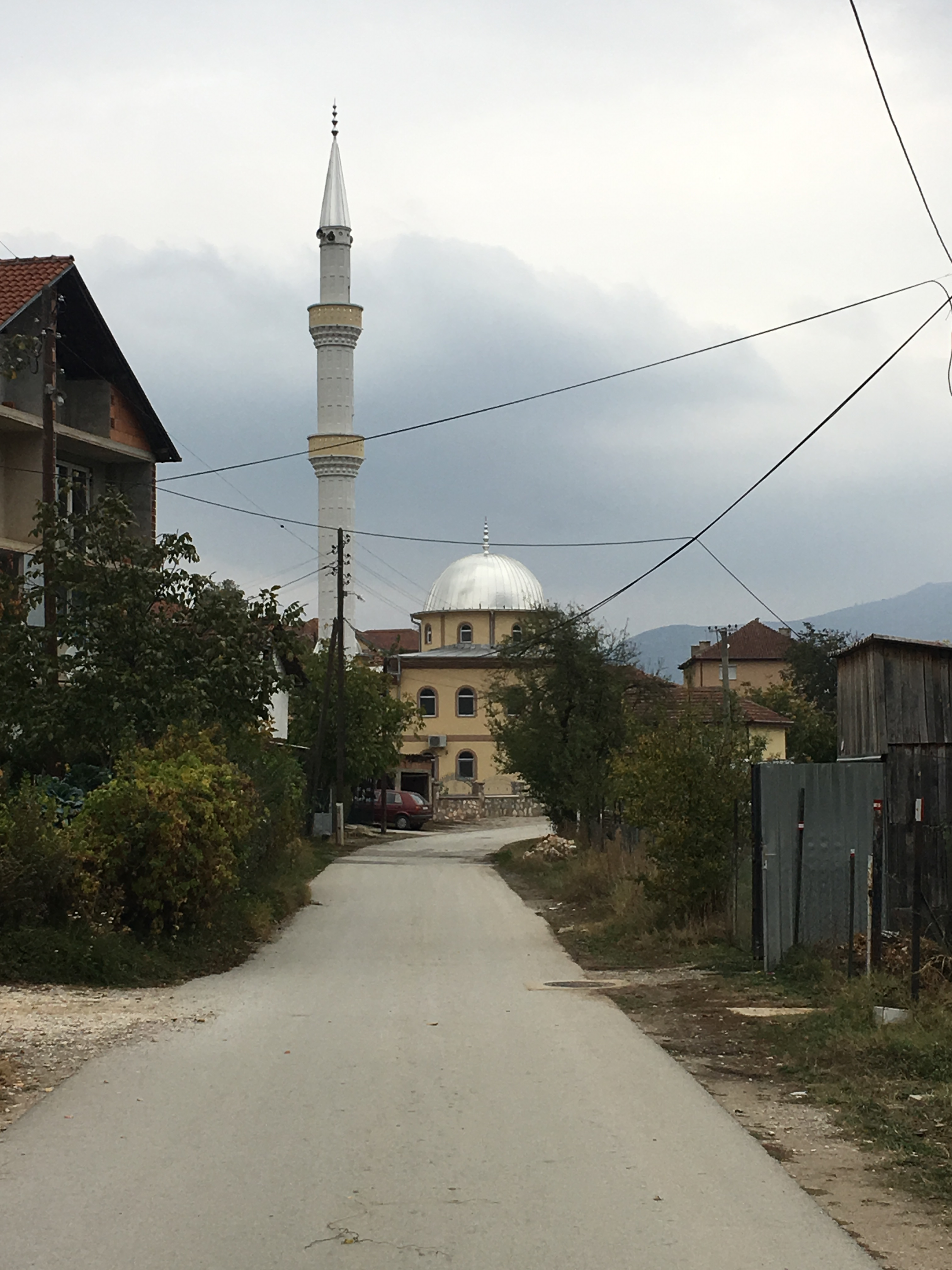 Wikiexpedition to Kopačka